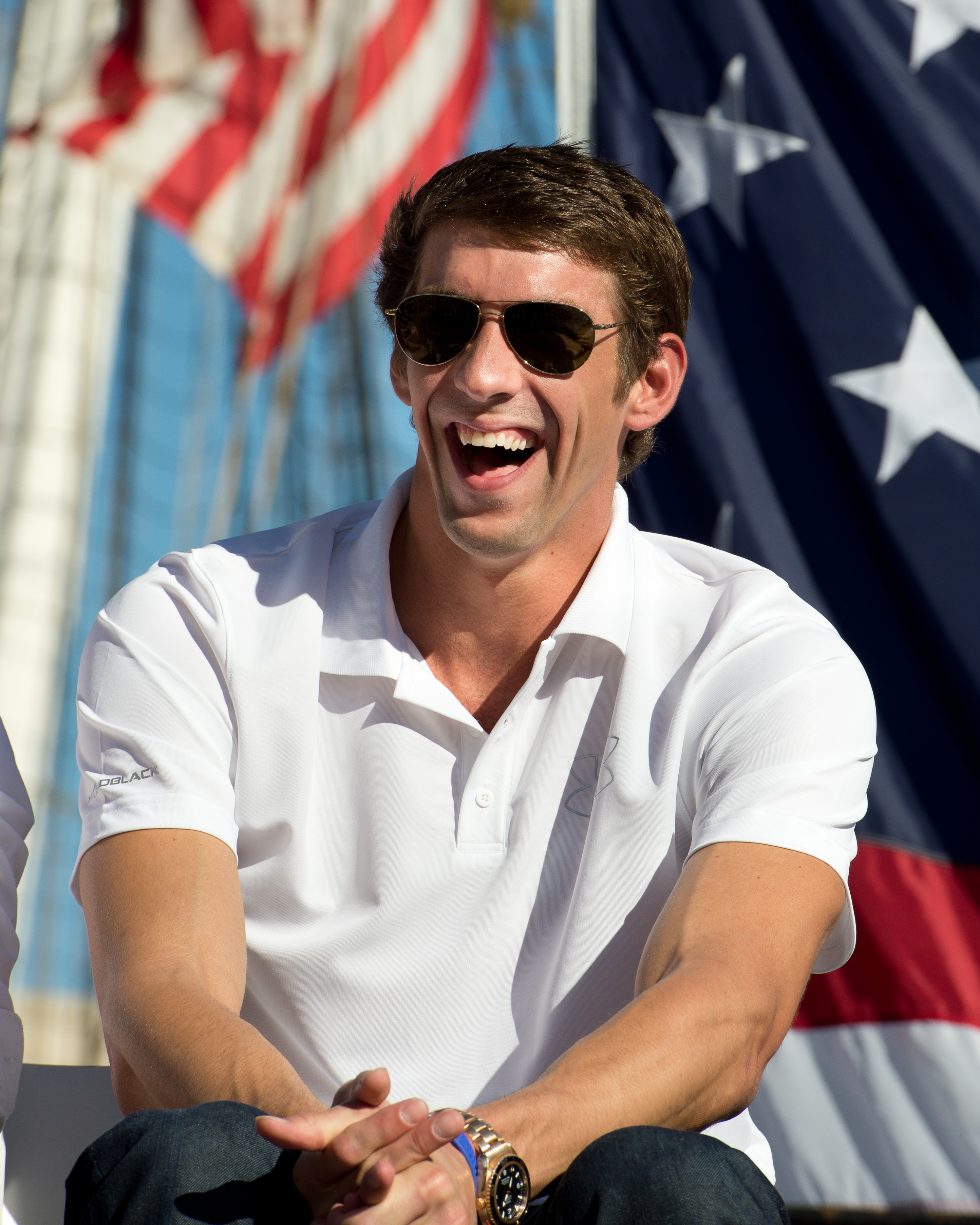 Maryland Olympians Celebration. by Jay Baker at Baltimore, MD.